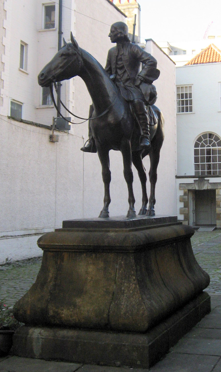 Statue of John Wesley on horseback in the courtyard of the New Room, Bristol